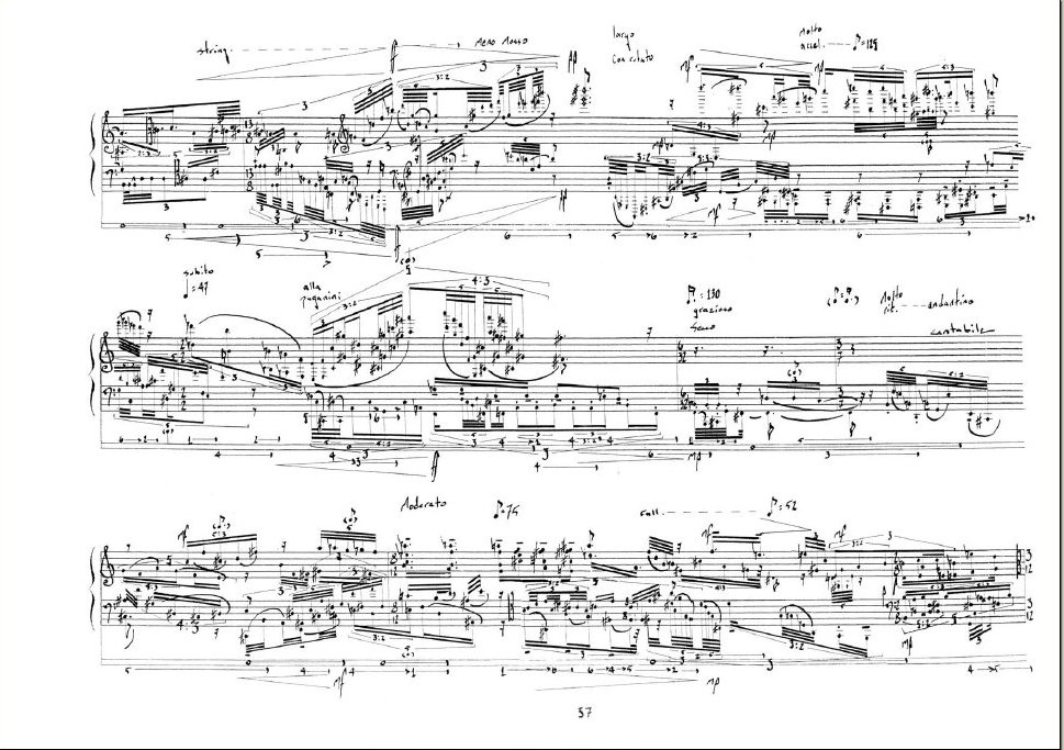 Michael Edward Edgerton_#70_1 sonata, for piano_page 37